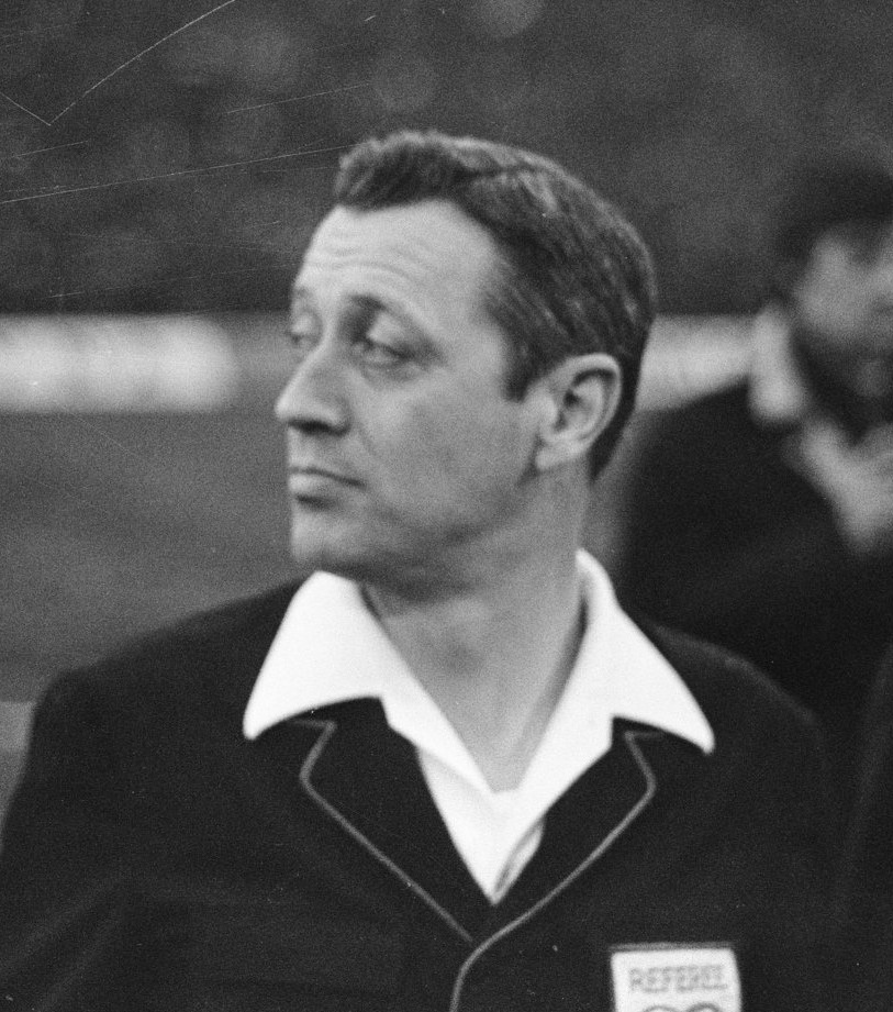 Francesco Francescon in 1970.